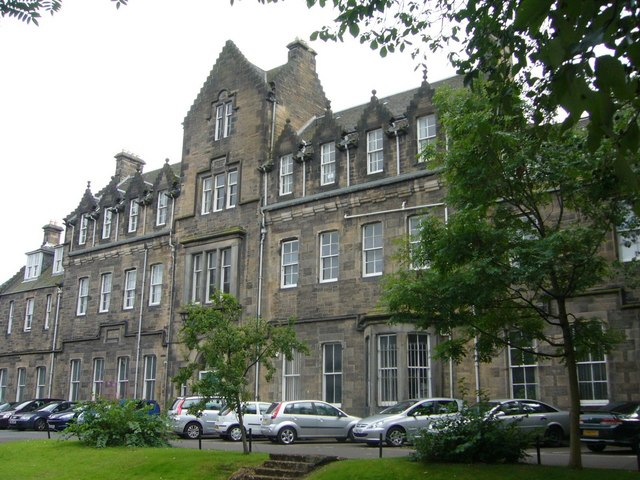 Springwell House, Gorgie Road The building, from the 1840s, was formerly the Edinburgh Magdalene Asylum, an institution that witnessed the darker side of Edinburgh's past. When it declared itself bankrupt in 1950 the Council took over the premises which are now used as a Social Work Centre.